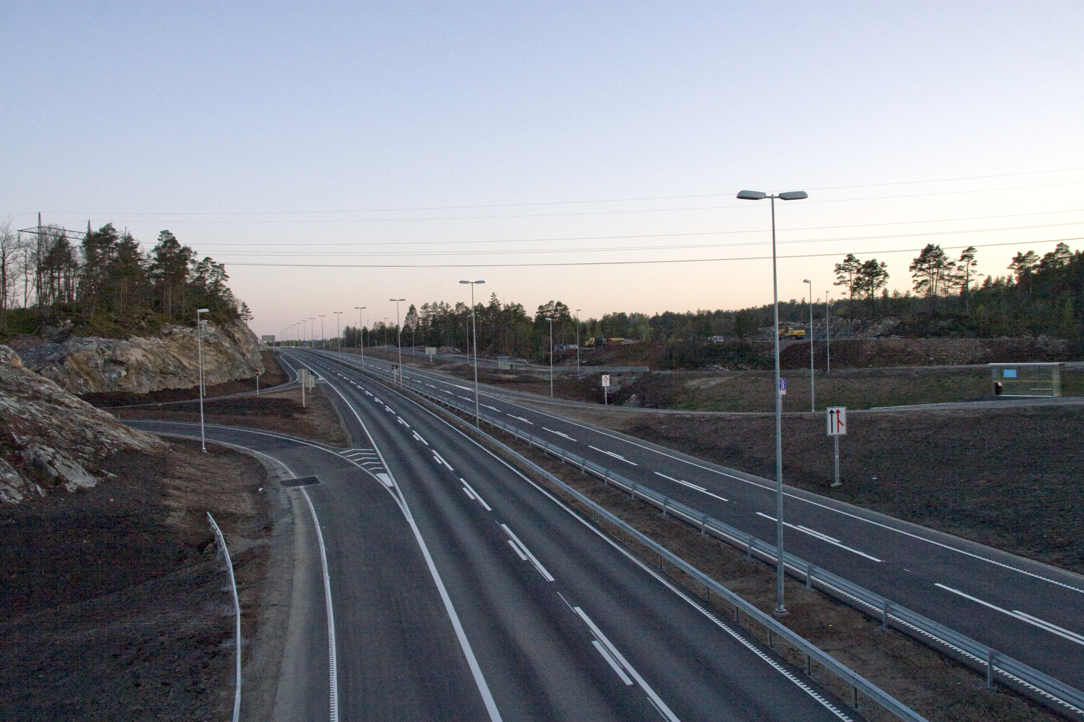 View of E 18 towards west, close to Kristiansand Zoo, Norway. This part of the road opened 1. May 2009, and is a part of the new E 18 from Kristiansand to Grimstad, which is supposed to be completely finished in August 2009